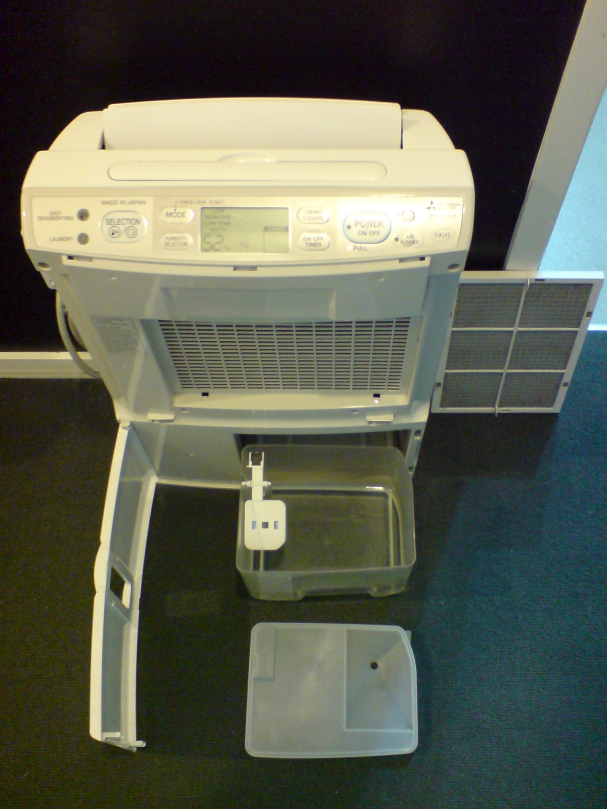 A dehumidifier with a decorative front panel removed (not shown), an air filter removed (at the right) and the water collection vessel pulled out with the lid removed (front). The magnet-tipped counter-weight floater is visible in the water collection vessel, and shuts off the operation when the dehumidifier is full. The swing louvre and a collapsible hand grip are visible at the top. The model is an Oasis MJ-E16VX from Mitsubishi Electric, marketed as being particularly quiet and adapted to the colder temperatures of New Zealand winters (dehumidifiers normally have problems working in colder climates).